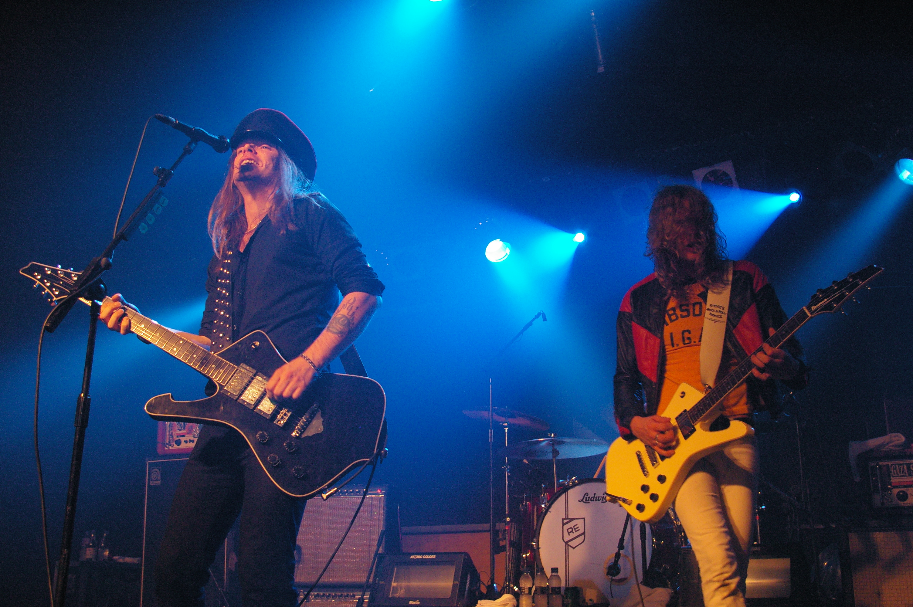 Nick 'Royale' Andersson and Robert 'Strings' Dahlqvist from The Hellacopters performing live